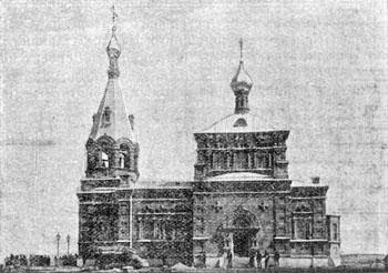 Severski avanpost church in Gyumri